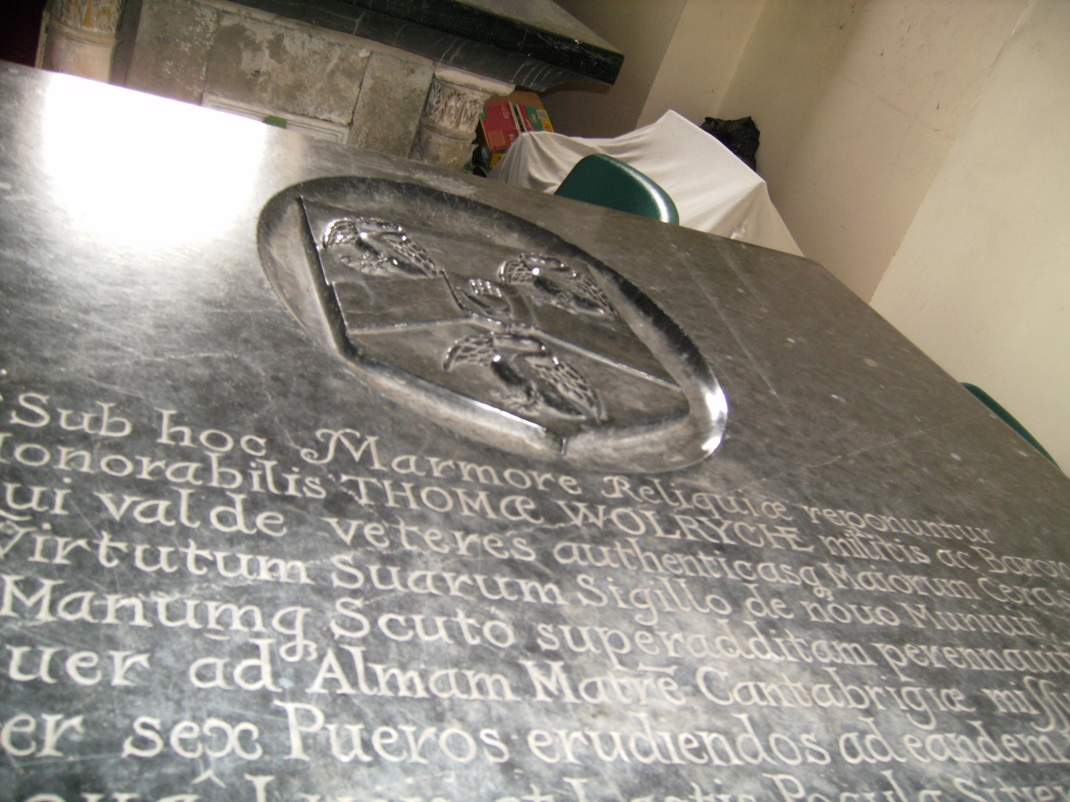 Tomb of Sir Thomas Wolryche (1598-1668) of Dudmaston Hall. St. Andrew's church, Quatt, Shropshire.